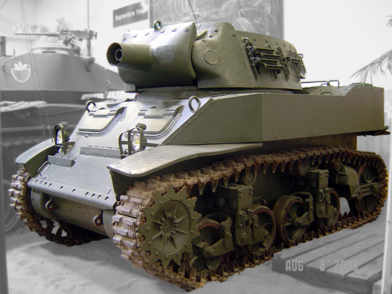 75mm Howitzer Motor Carriage M8 on display at the Musée des Blindés in Saumur. The picture taken August 8, 2006.